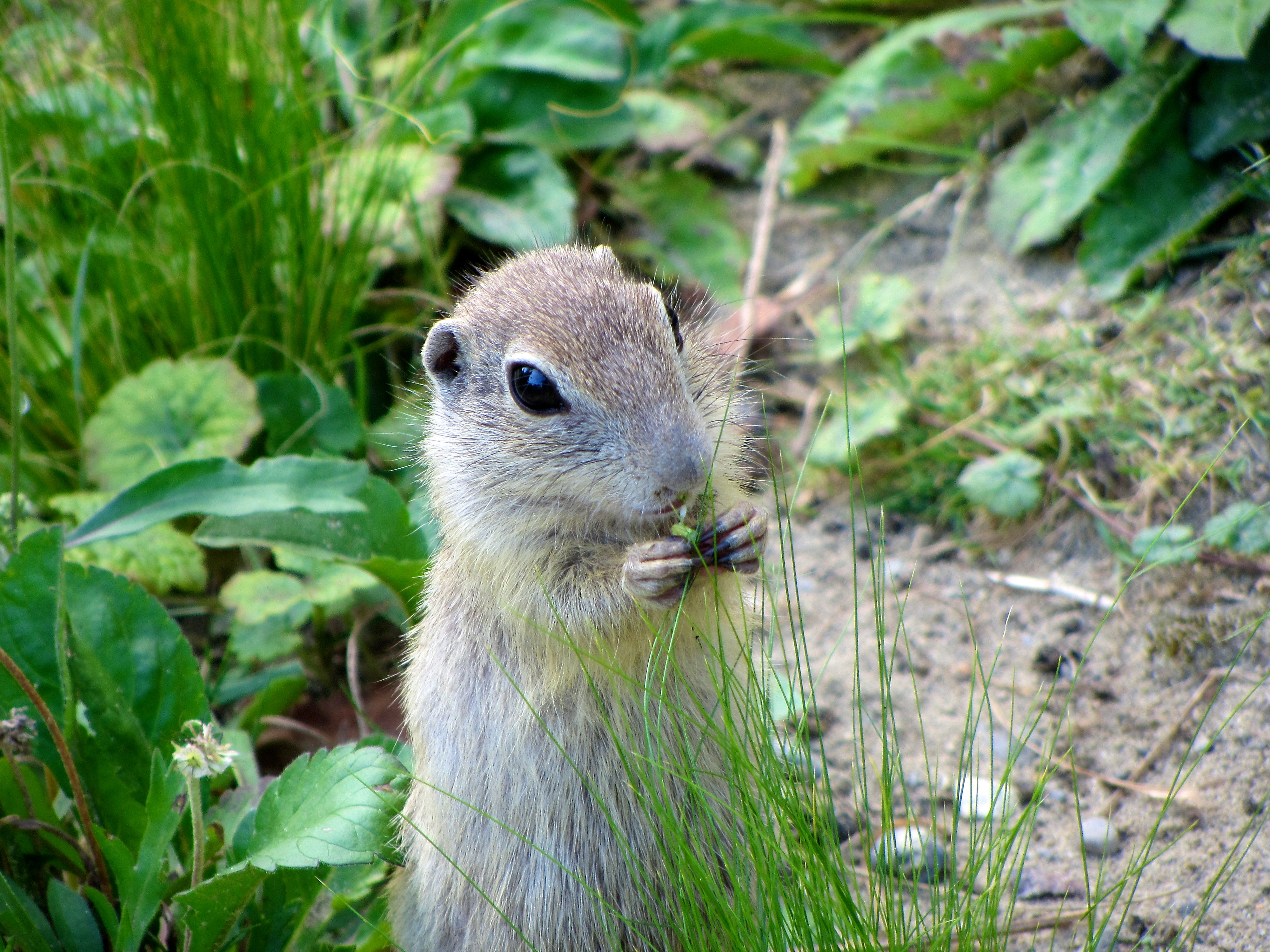 European Ground Squirrel